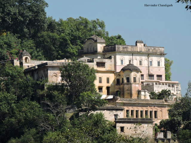 Palace of earstwhile Arki Princely State,Himachal Prades,India